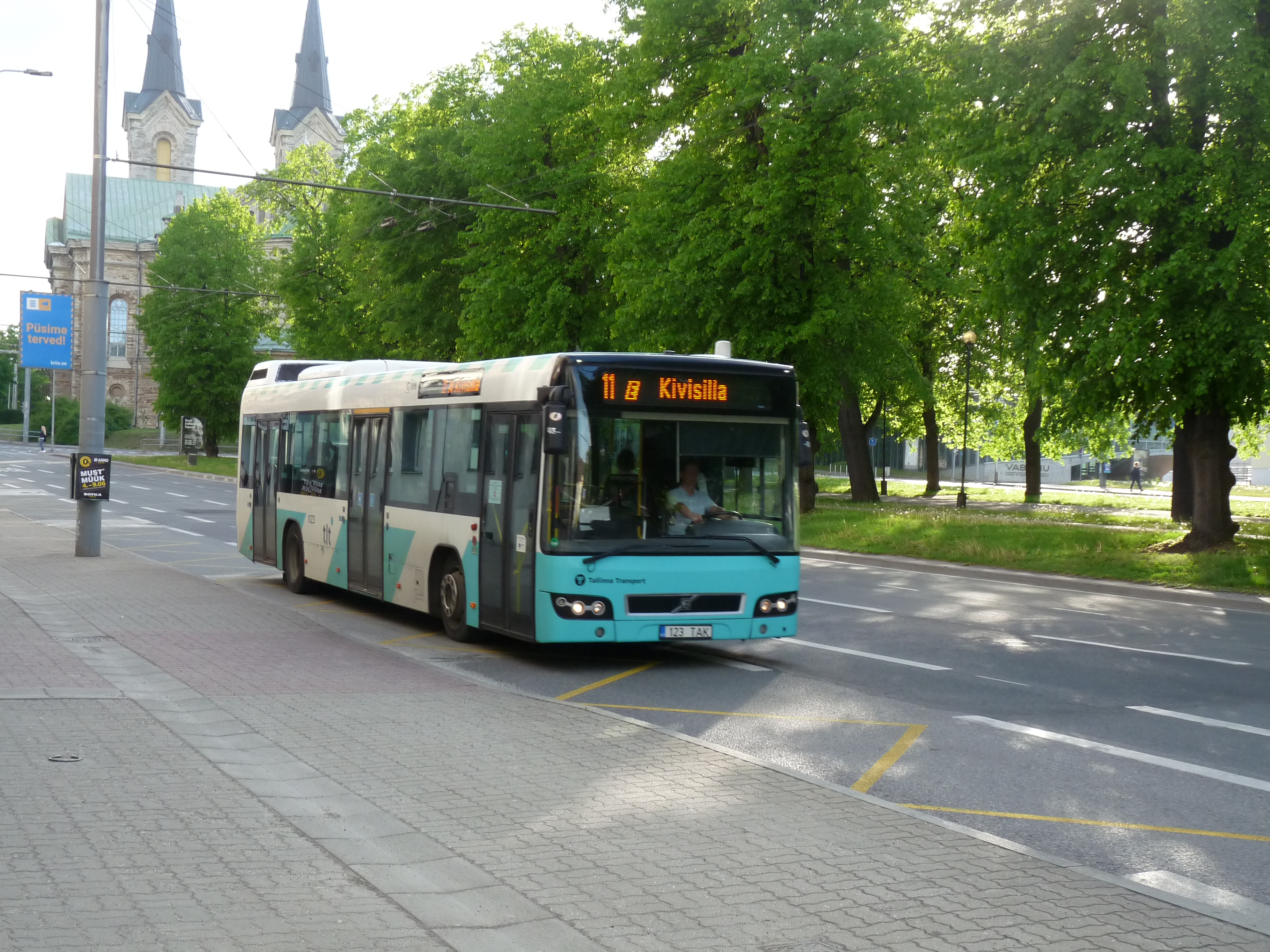 Volvo 7700 public bus in Tallinn, Estonia